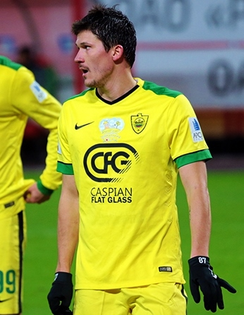 Ilya Maksimov